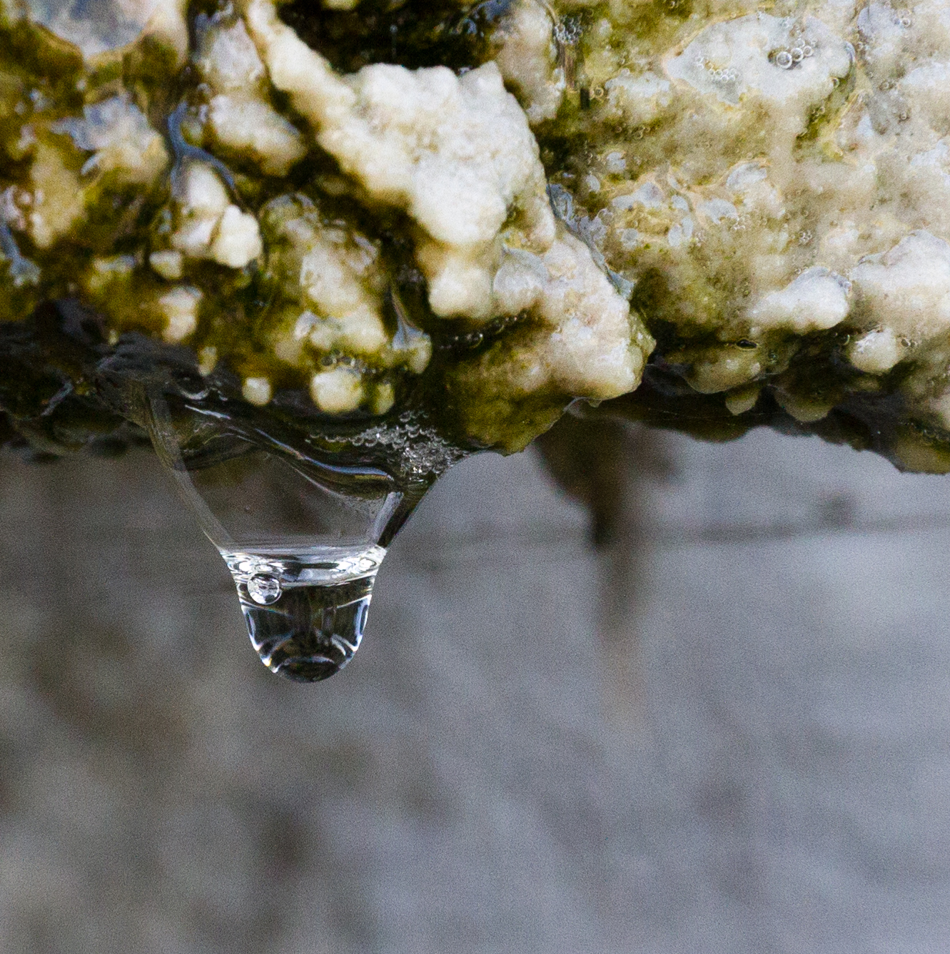 a drop od saline from Ciechocinek graduation tower